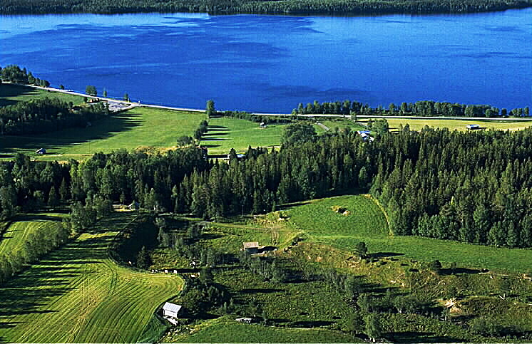 the village Glösa and the lake Alsensjön in Krokom municipality, Jäntland county, Sweden